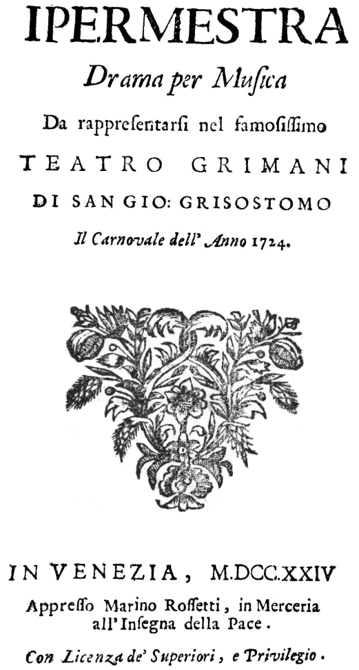 Geminiano Giacomelli - Ipermestra - titlepage of the libretto - Venice 1724